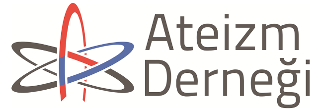 Ateizm Derneği logo with text